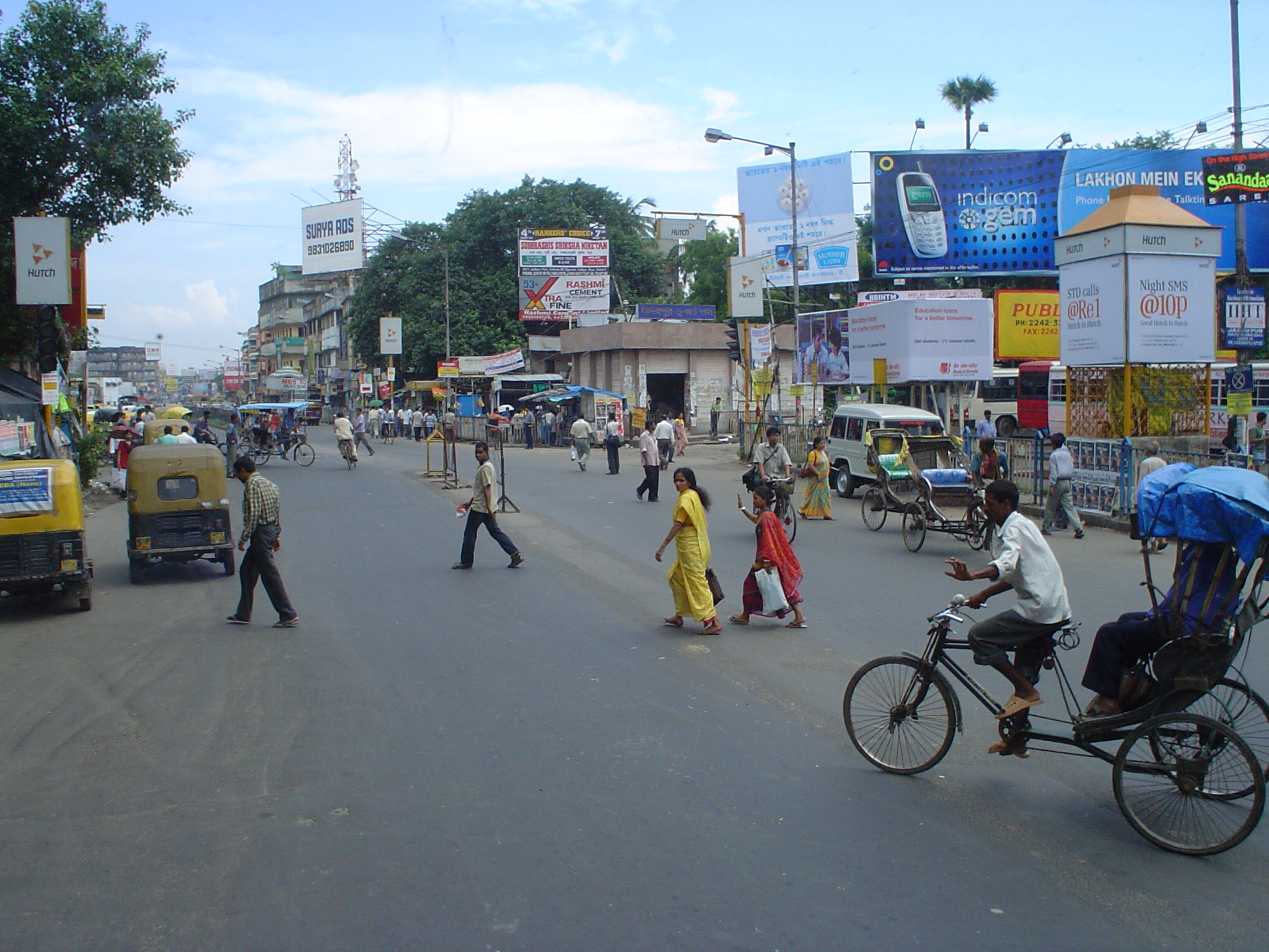 Jadavpur 8B bus stand, Kolkata. India